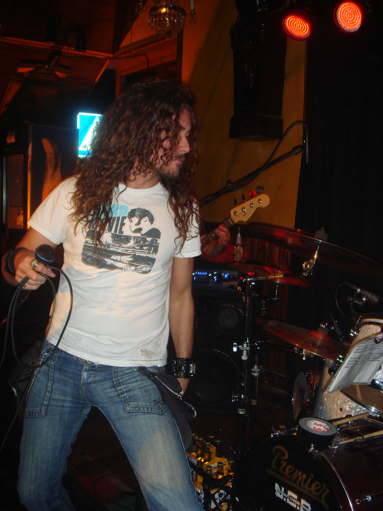 Live picture of Mats Levén